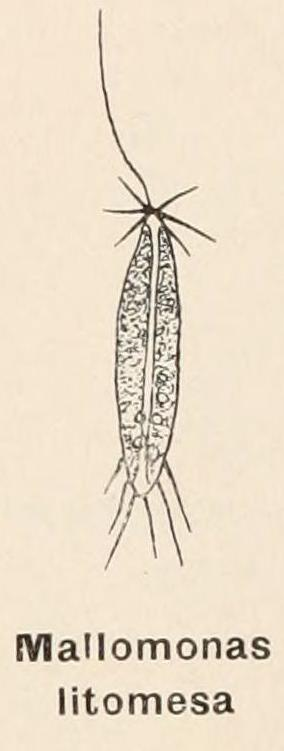 Title: Album général des diatomées marines, d'eau douce ou fossiles : album représentant tous les genres de diatomées et leurs principales espèces Year: (190-?) ((190s) Authors: Coupin, Henri, b. 1868 Subjects: Diatoms Publisher: Paris : H. Coupin Text Appearing Before Image: ALG^. PL 2 Text Appearing After Image: Phaeococcus démenti I. CHRYSOMONADINE^ Chromulinnccœ